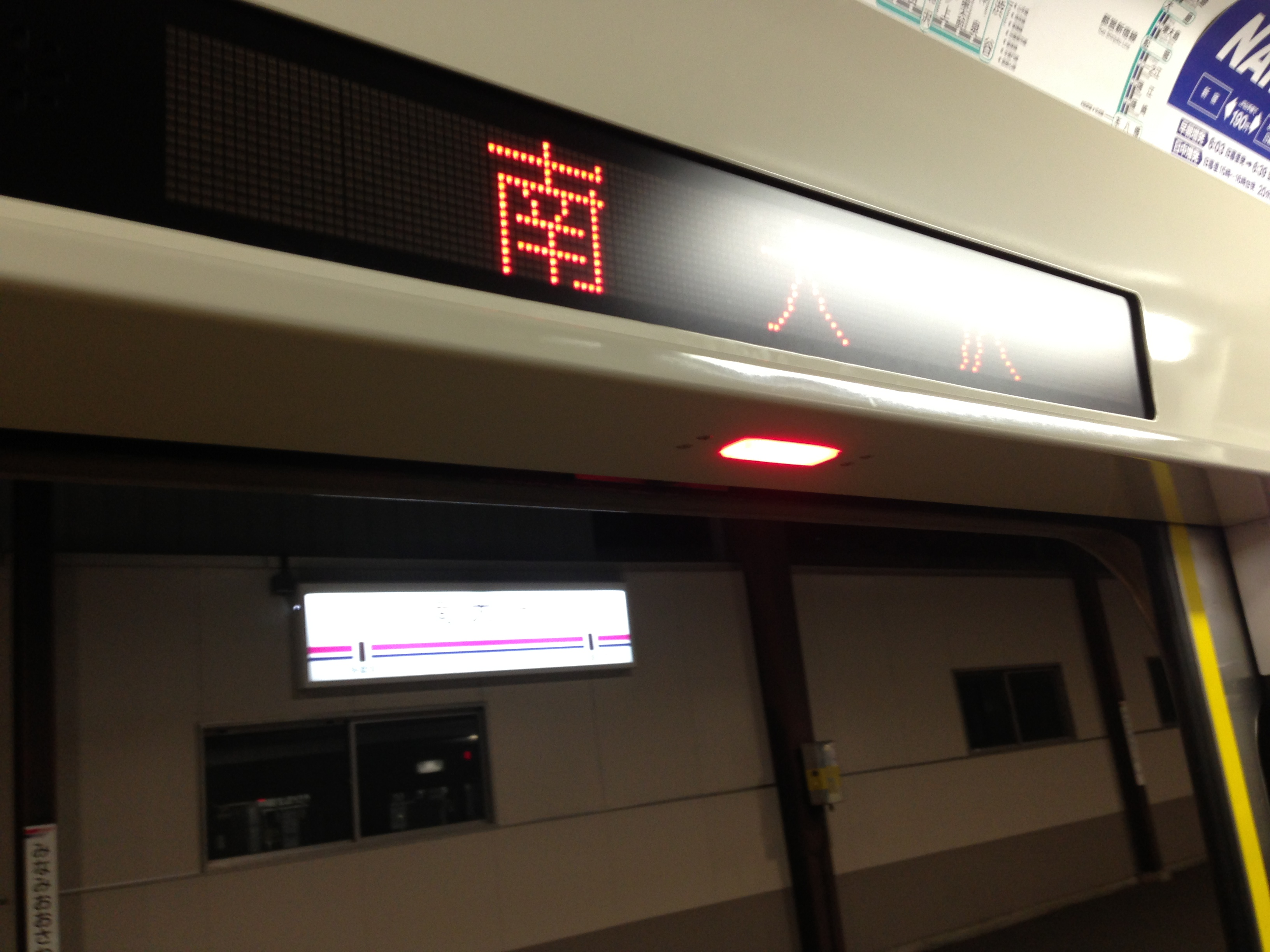 Door movement indicator on Keio unit 7729